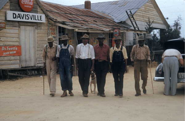 Group of men who were test subjects in the Tuskegee Syphilis Experiments